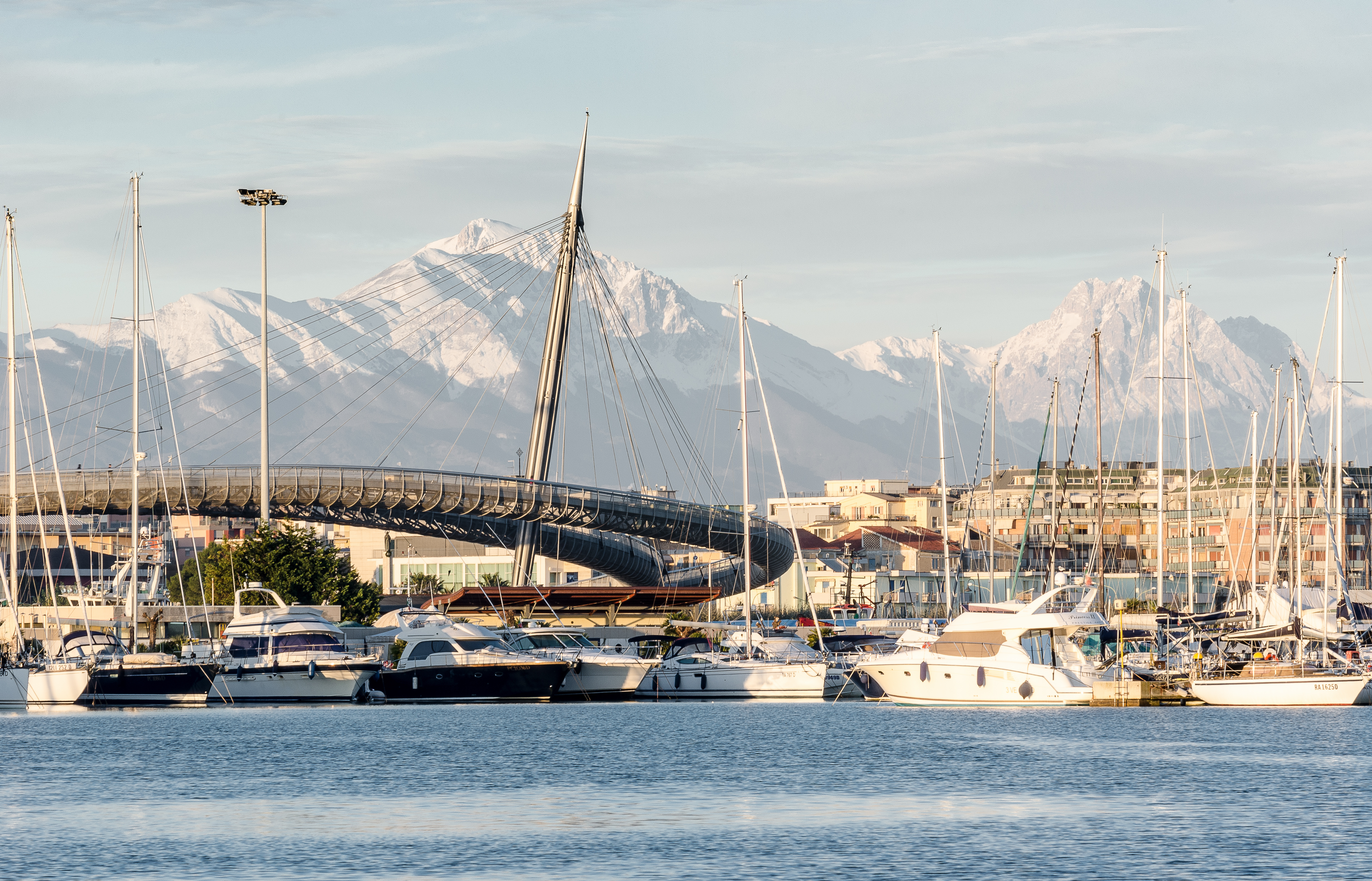 Port of Pescara and Ponte del Mare in Pescara, Italy, with the Gran Sasso mountain in the background